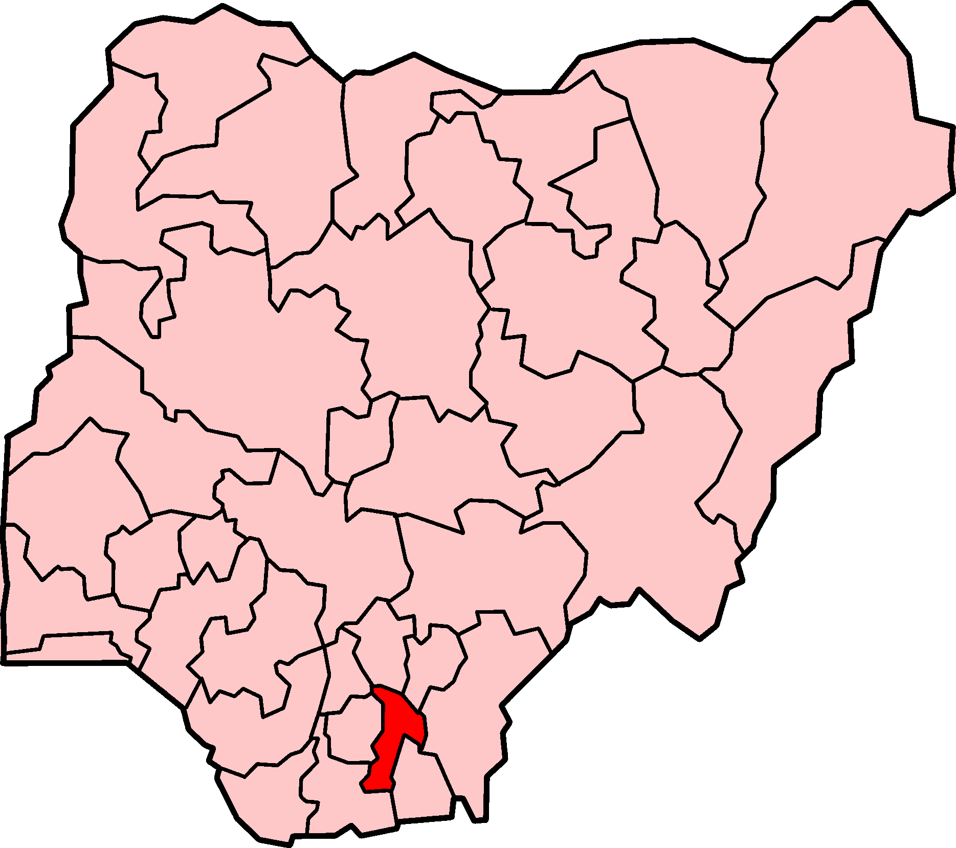 Locator map for Abia state, within Nigeria